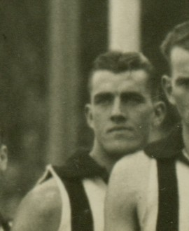 Photograph of Dick Grant in 1932